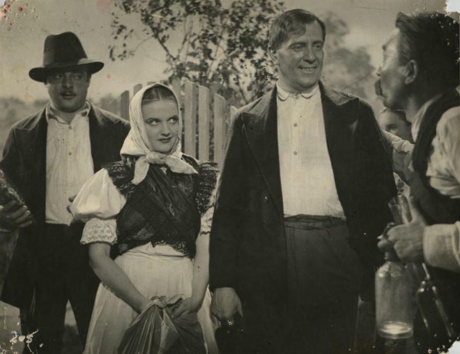 Scene from the Hungarian movie titled Tiszavirág (released in 1939)